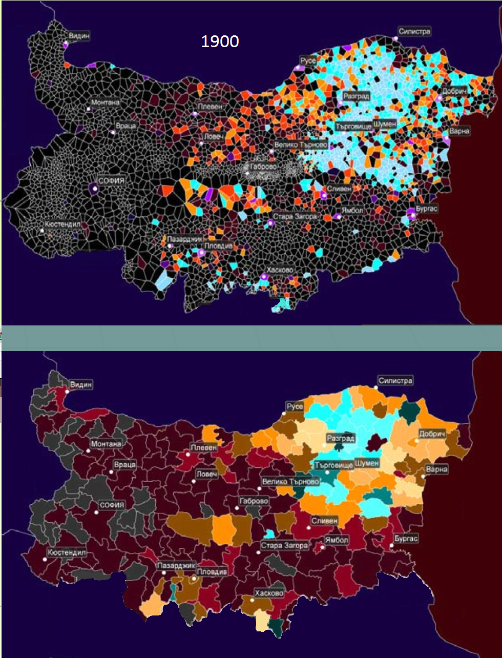 Distribution of the ethnic Turks in Bulgaria according to the 1900 census. Their frequency descends from blue color, to orange/red and purple and from their lighter to darker shades.